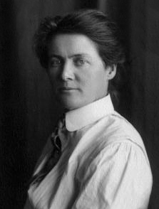 Beatrice Wyndham of Okotoks, Alberta. Photographer from an original dating to 1896 and so long out of copyright.